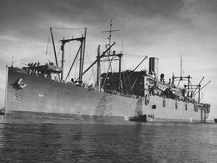 The U.S. Navy attack transport USS Hunter Liggett (APA-14) photographed in harbor, circa 1943-44. Hunter Liggett had a U.S. Coast Guard crew.